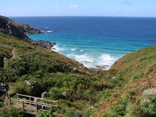 Pendour Cove from Trewey Cliff. Looking down into Pendour Cove from the steps on the coastal footpath that climb Trewey Cliff above the footbridge (bottom left) over the stream from Zennor. This cove features in the local legend about the Mermaid of Zennor. The following version is taken from the Cornwall in Focus website ... "A local legend tells us of the story of one Mathew Trewella and his love for a mermaid. Mathew was a fine young man with a voice to match his good looks. Every evening Mathew would sing the closing hymn at Zennor church alone - this was to be his undoing. A mermaid, half-woman half fish, was entranced by the wonderful music from the village above her home at Pendour Cove. She listened to Mathew's voice with increasing interest until one day should could stand it no longer. She had to see who was making this beautiful music. The mermaid dressed herself in a long dress, taking care to conceal her long tail and walked awkwardly up to the church. At first she just marvelled at the singing before slipping away to return beneath the waves before the ebb-tide. After a few more visits, she became bolder and waited longer. It was on this visit that her gaze met with Mathew's and the pair fell madly in love. The call of the sea was too strong however and the mermaid knew that she must return to her home or face certain death. She turned to leave but Mathew called after her 'Please do not leave, who are you, where are you from?'. The mermaid explained that she was a creature from the sea and that she must return now. Already deeply in love with her, Mathew told her that wherever she went he would follow. Carrying her, Mathew ran down to the cove and followed her beneath the waves. Neither were seen again. It is said however that if you sit above the cove at twilight on a fine summer's evening you might just catch Mathew singing faintly on the breeze."